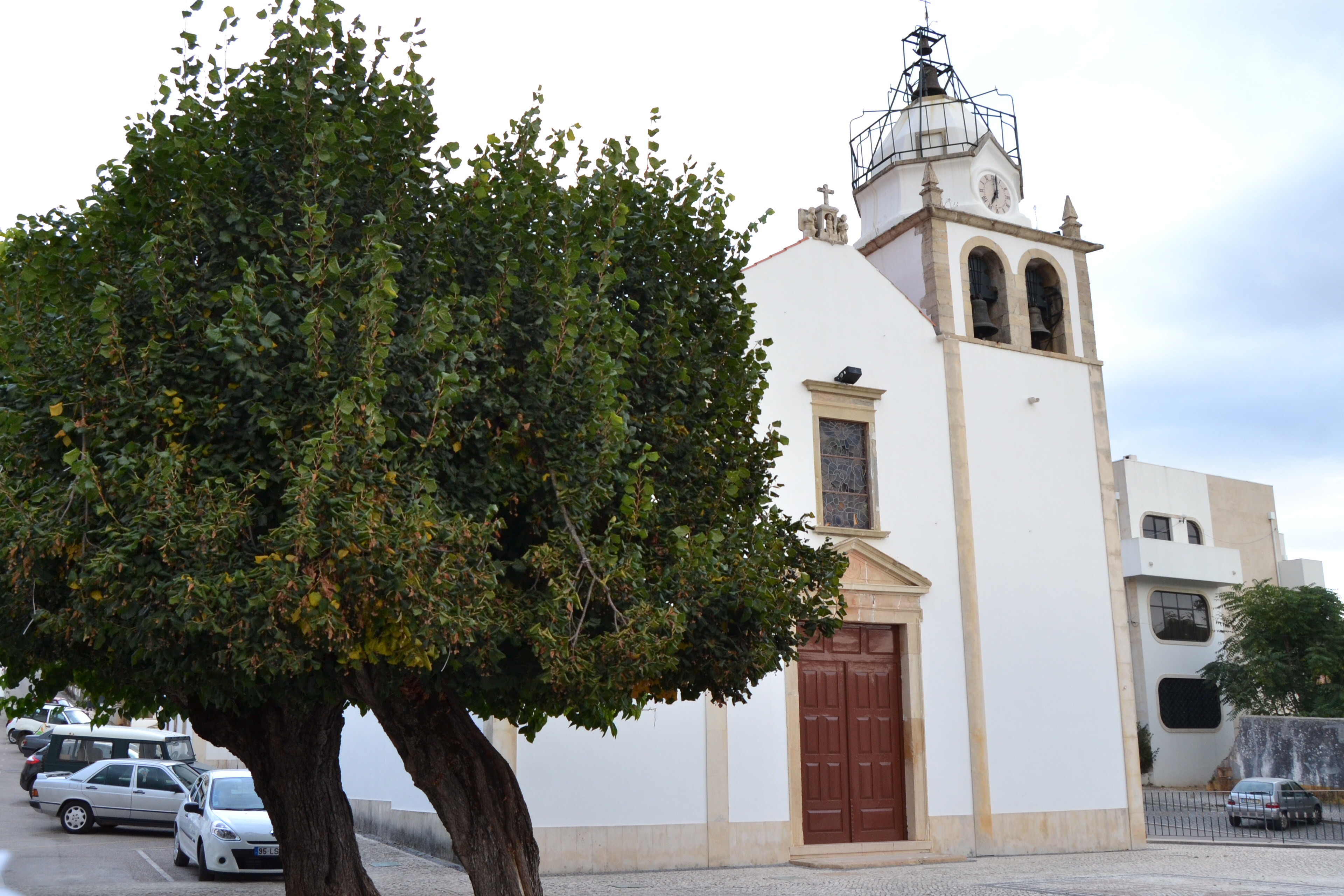 This file was uploaded for Wiki Loves Monuments in Portugal with the unique identifier 97024142.